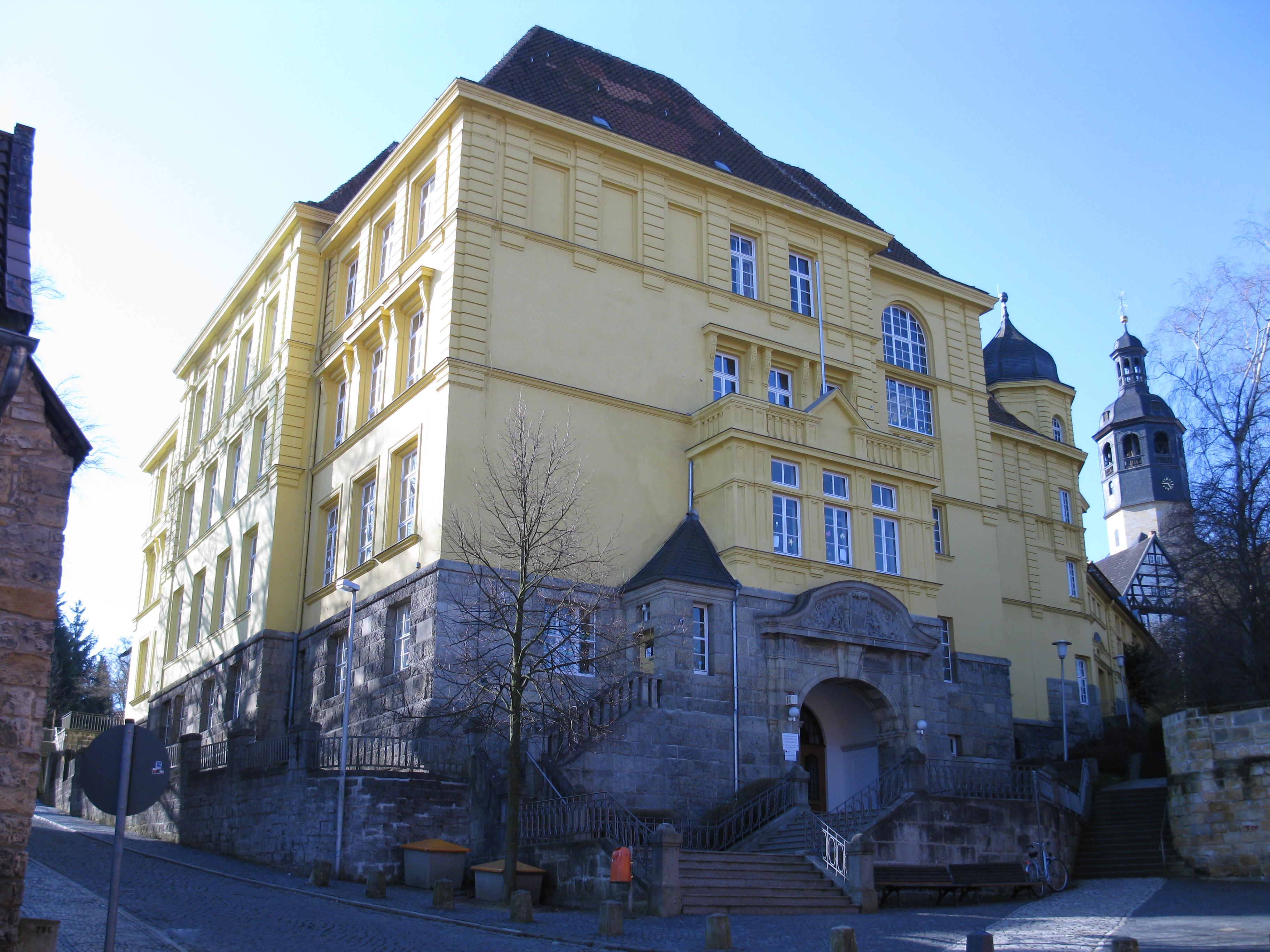 Old Primary School, Bennostraße, Hildesheim.